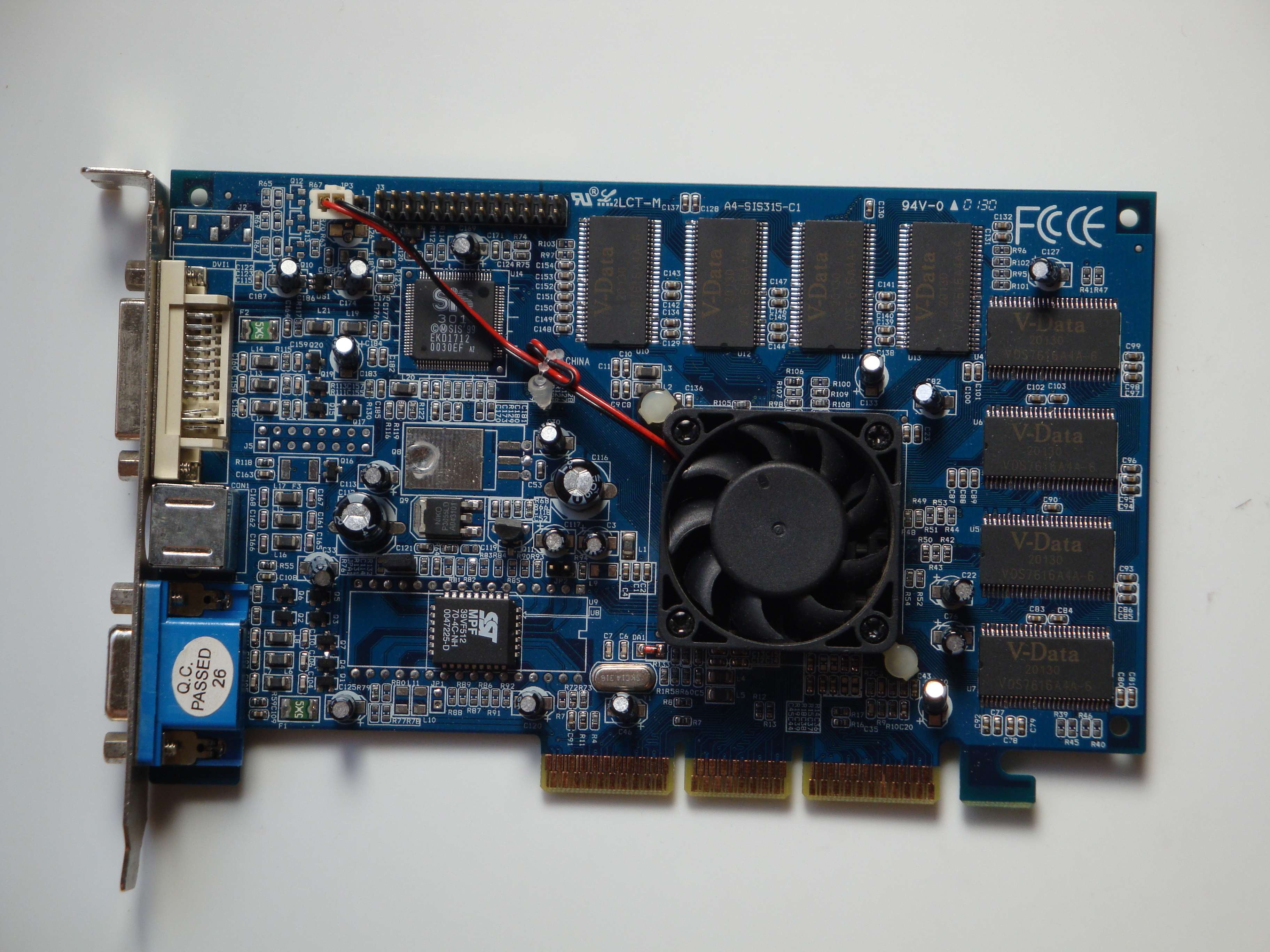 SiS 315 AGP Graphics Card, with 128MB SDRAM and DVI on SiS 301. This Product's name is JOYTEC APOLLO 3D THRILL 315 PRO(APO-SI315-128).